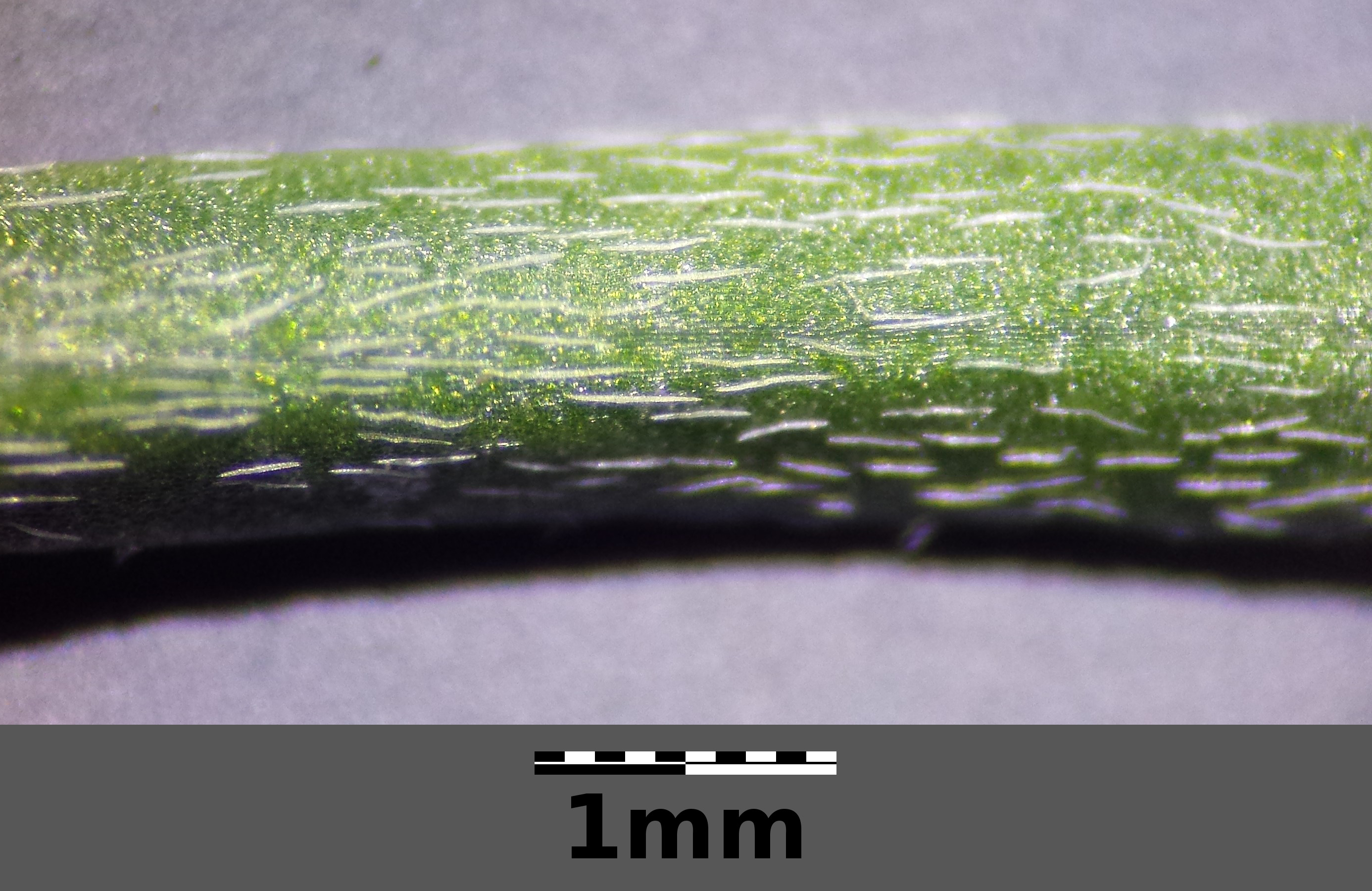 Leaflets with compass needle hairs Taxonym: Astragalus austriacus ss Fischer et al. EfÖLS 2008 ISBN 978-3-85474-187-9 Location: Tabulová hora near Klentnice, Jihomoravský kraj, Czech Republic - ca. 450 m a.s.l. Habitat: dry grassland on lime stone